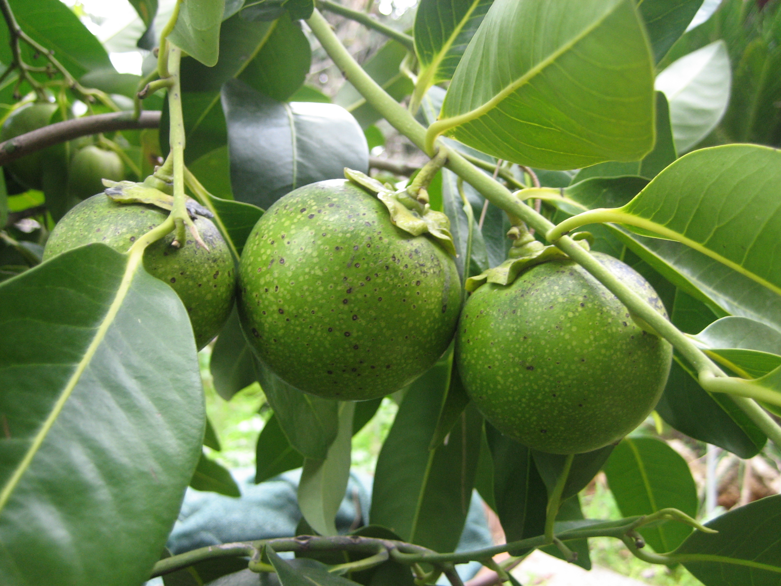 Black Sapote Fruit - Picture taken in Israel.